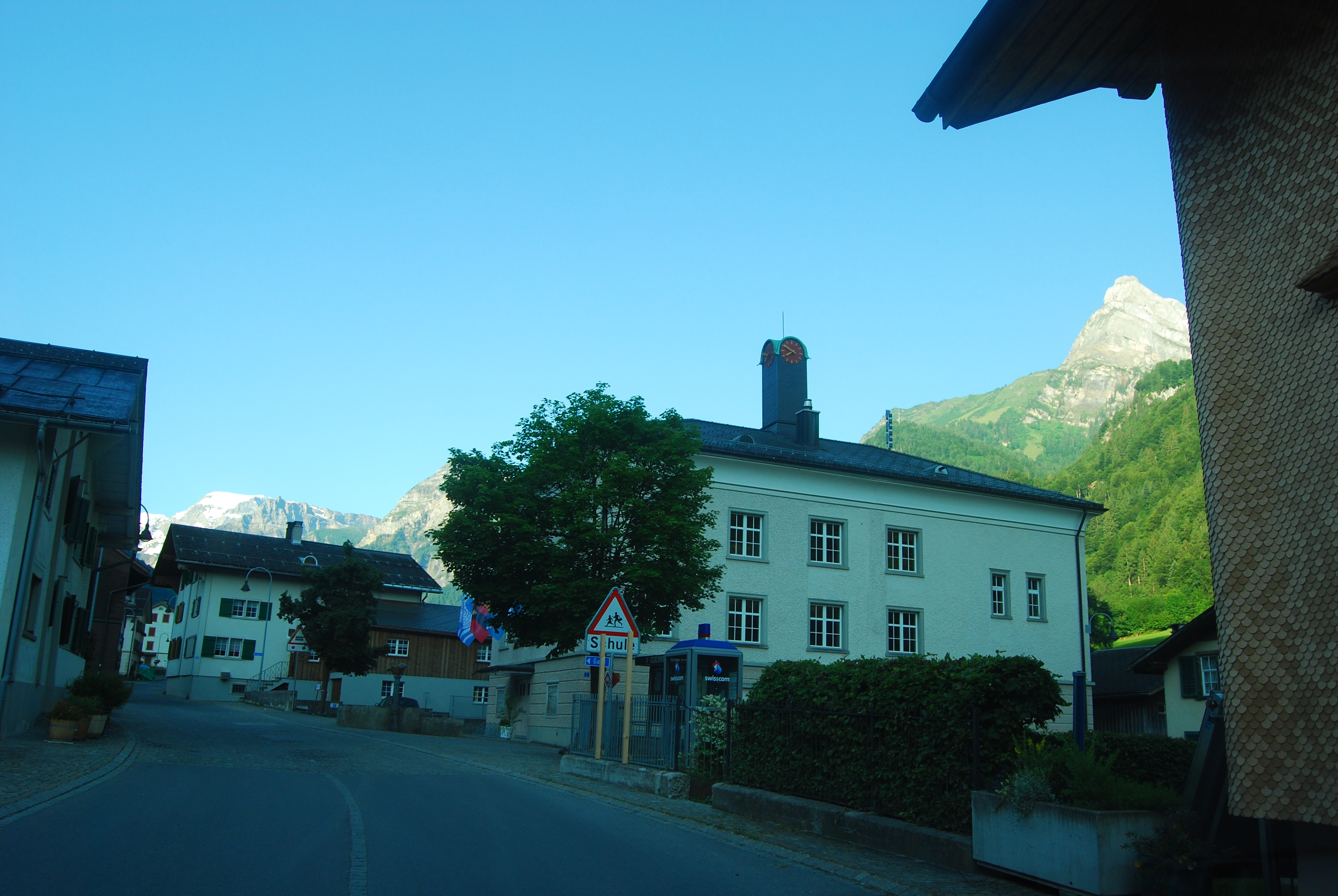 School of Rüti, canton of Glarus, Switzerland